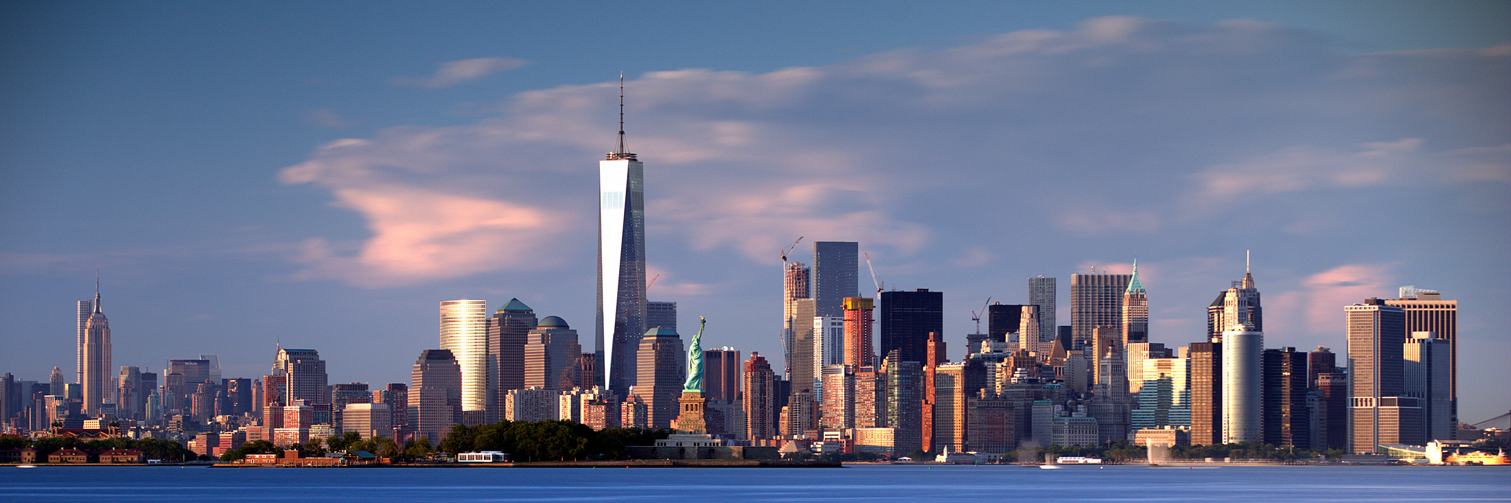 Manhattan skyline, late July 2015.